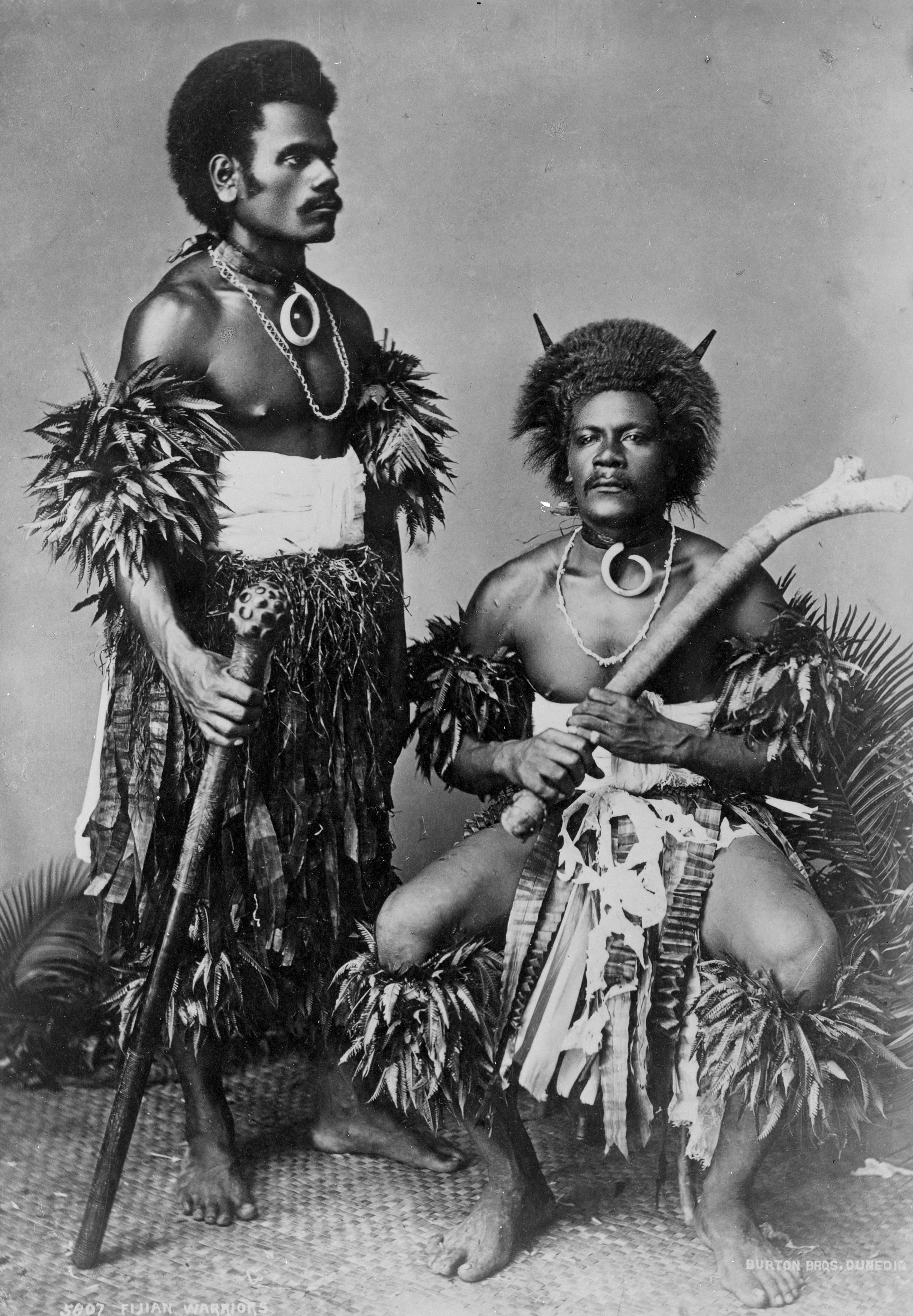 Portrait of two warriors photographed in Fiji in 1884 by Alfred Burton.